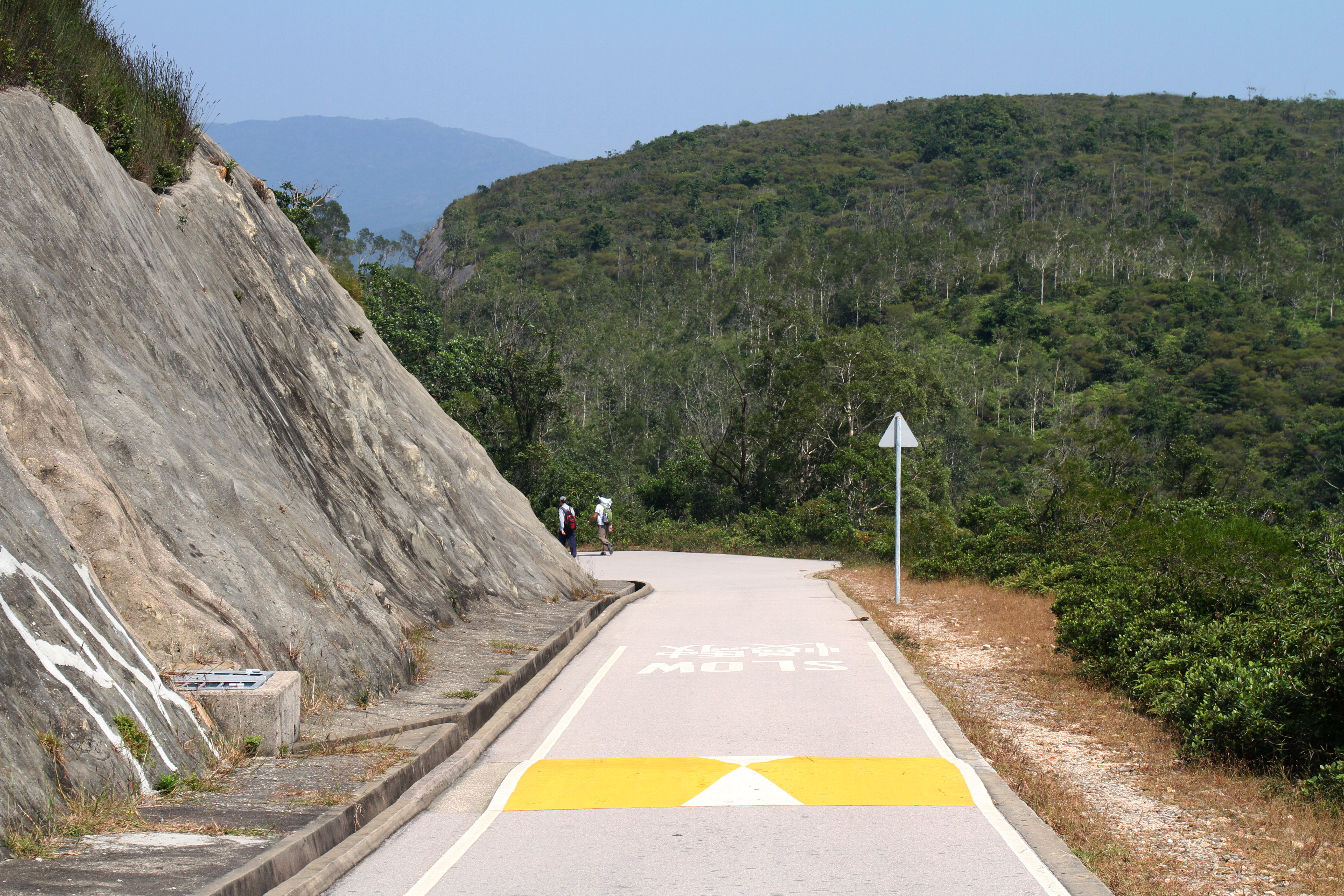 Sai Kung Man Yee Road, Sai Kung, Hong Kong